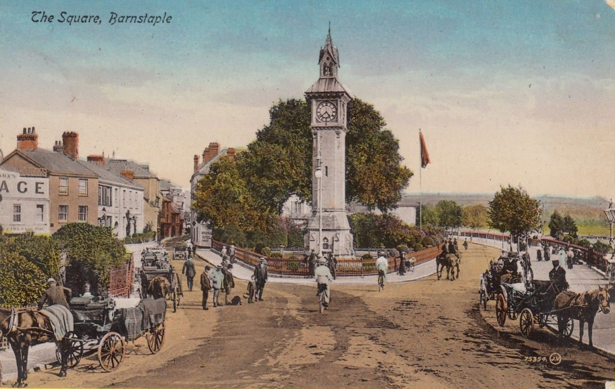 Postcard of the Albert Clock